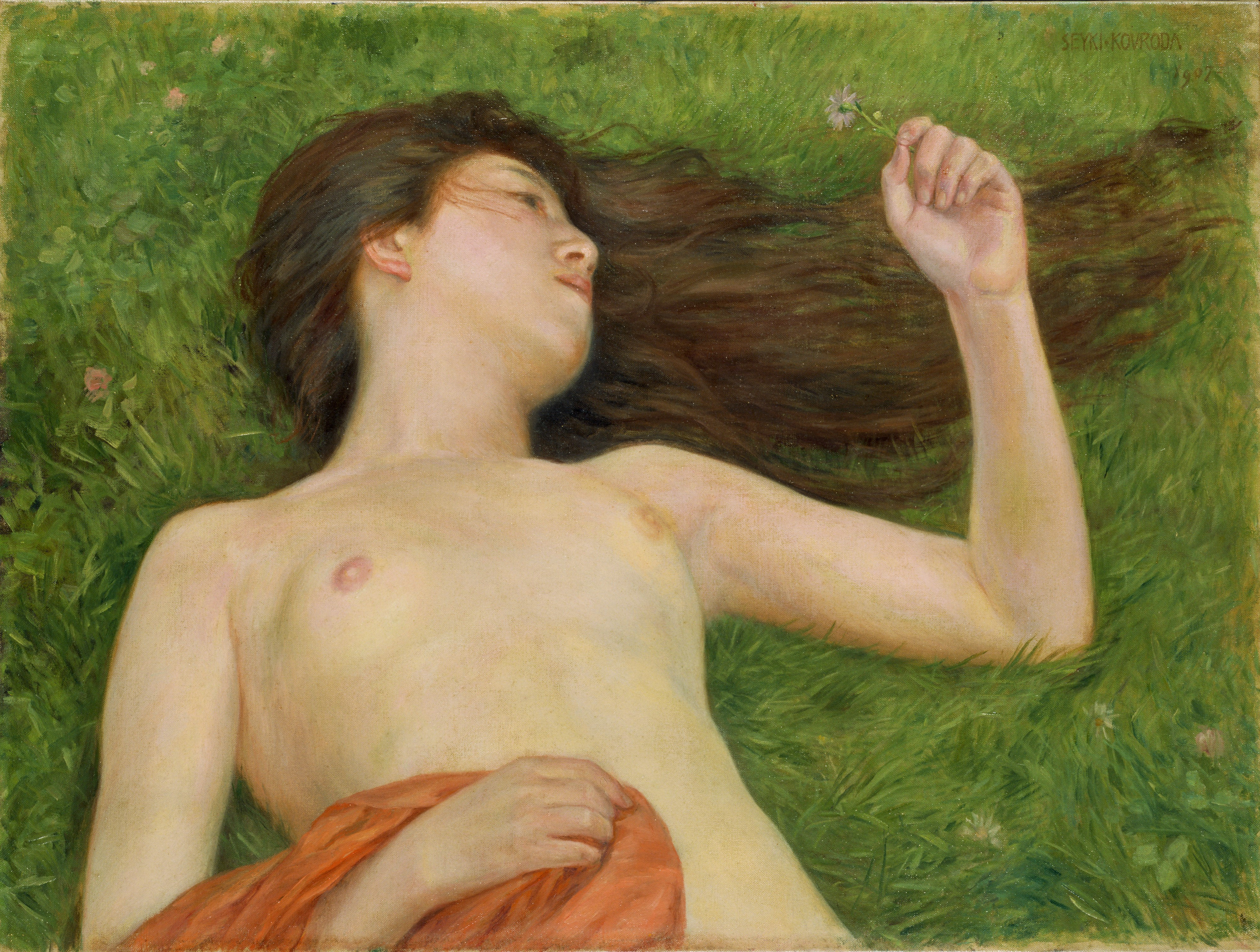 The Fields